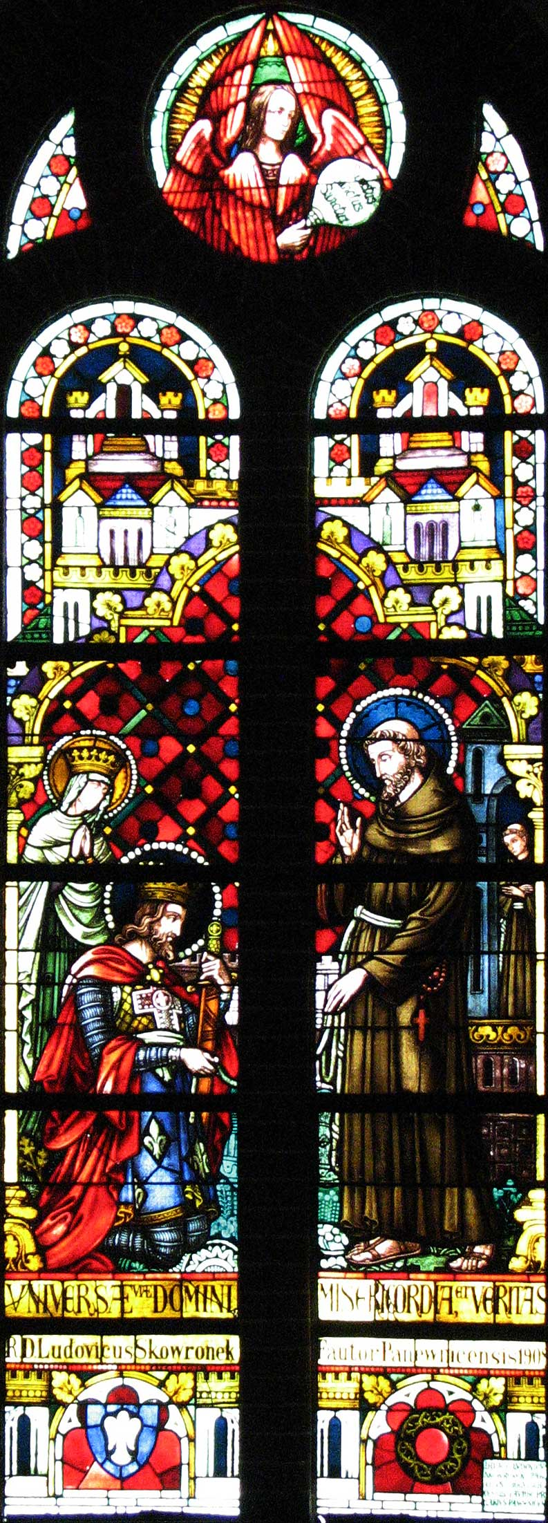 Stained glass window in the upper presbytery of the Basilica of St. Louis King in Katowice Poland, XX century